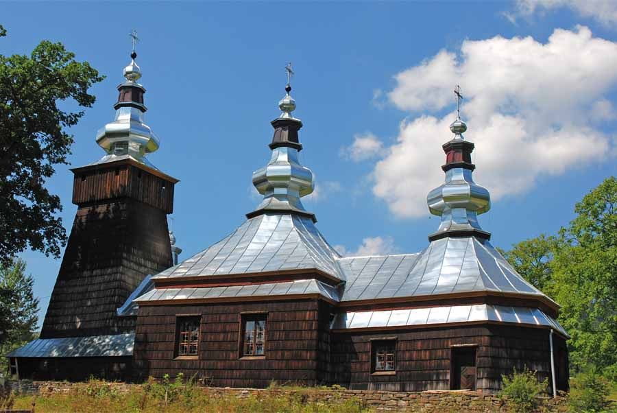 Church of Sts. Cosmas and Damian in Berest (Poland). Greek Catholic church built by the Lemkos in 1842.